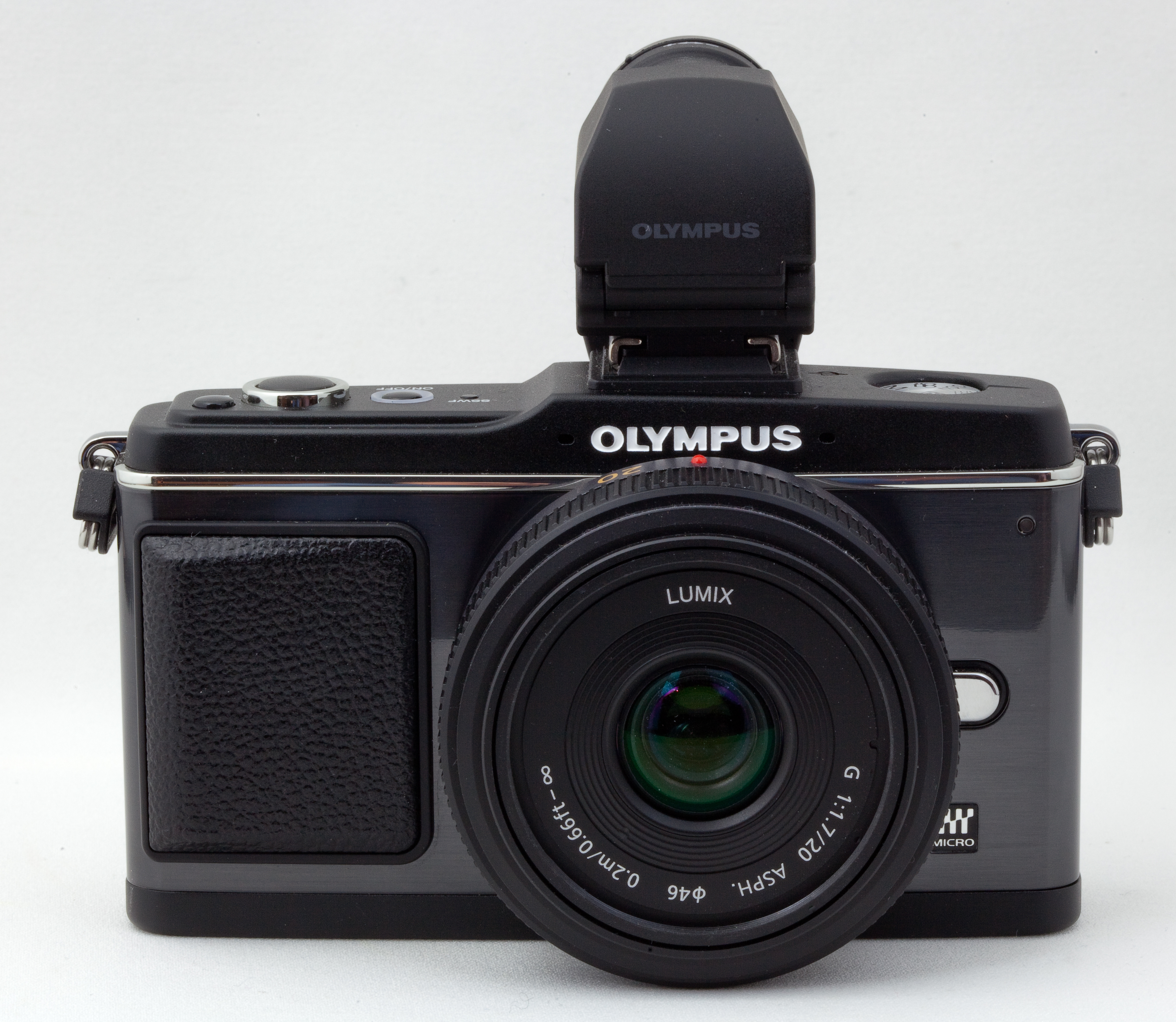 Olympus E-P2